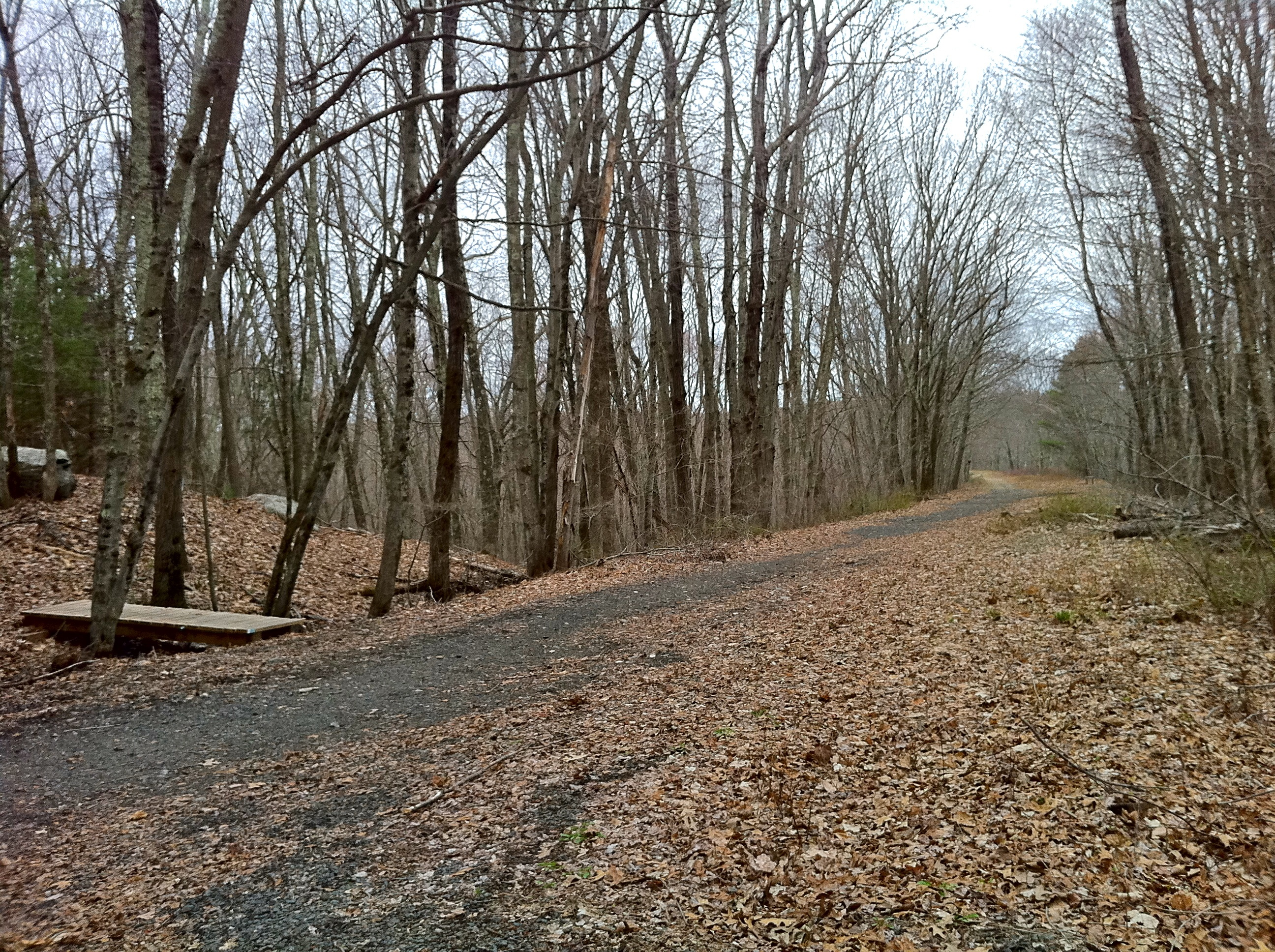 Pine Acres Lake View Trail intersection with Airline Trail northeast of Black Spruce Pond in Hampton, CT.